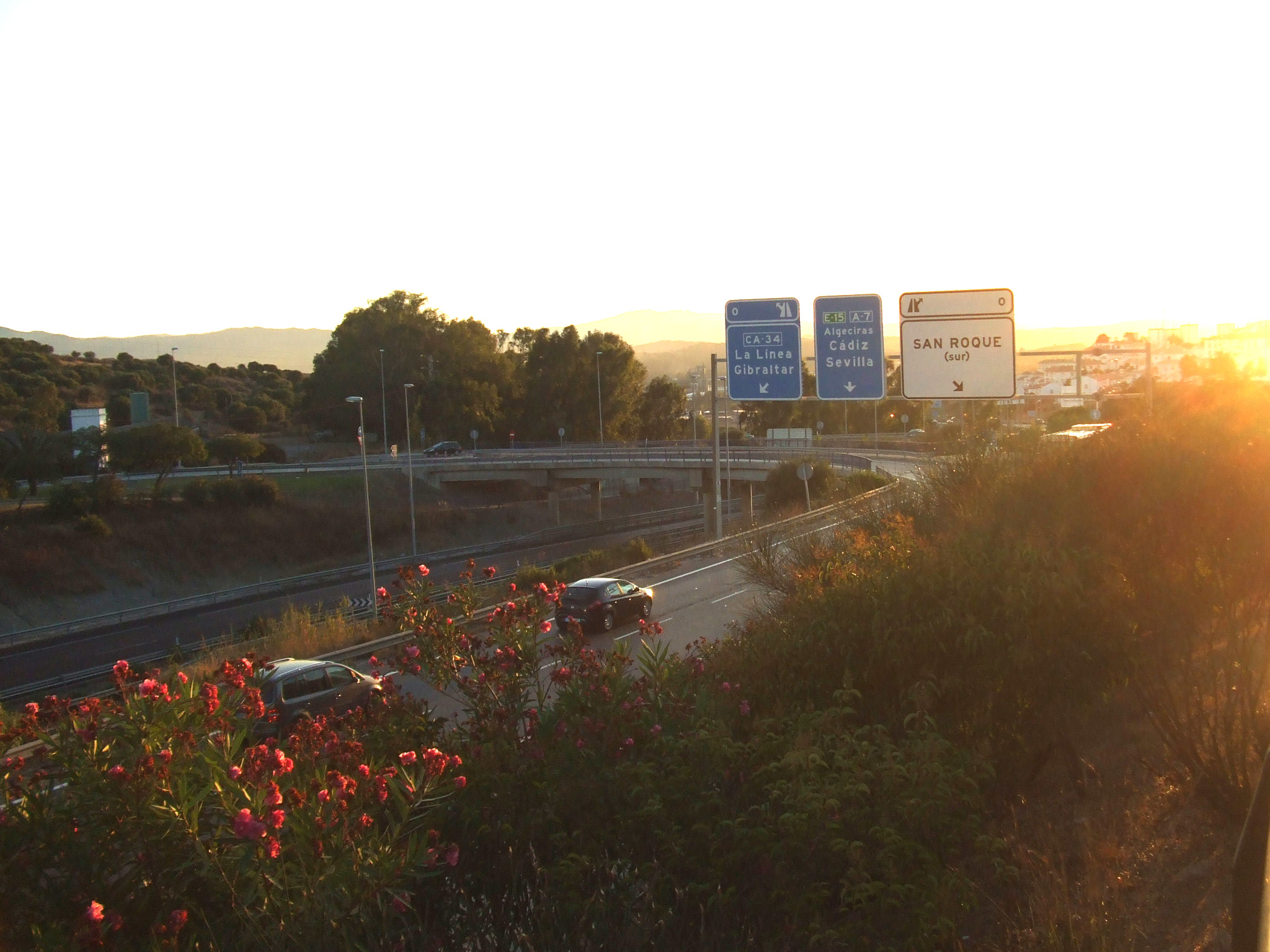 Link between A-7 and CA-34 in San Roque, Cádiz, Spain.